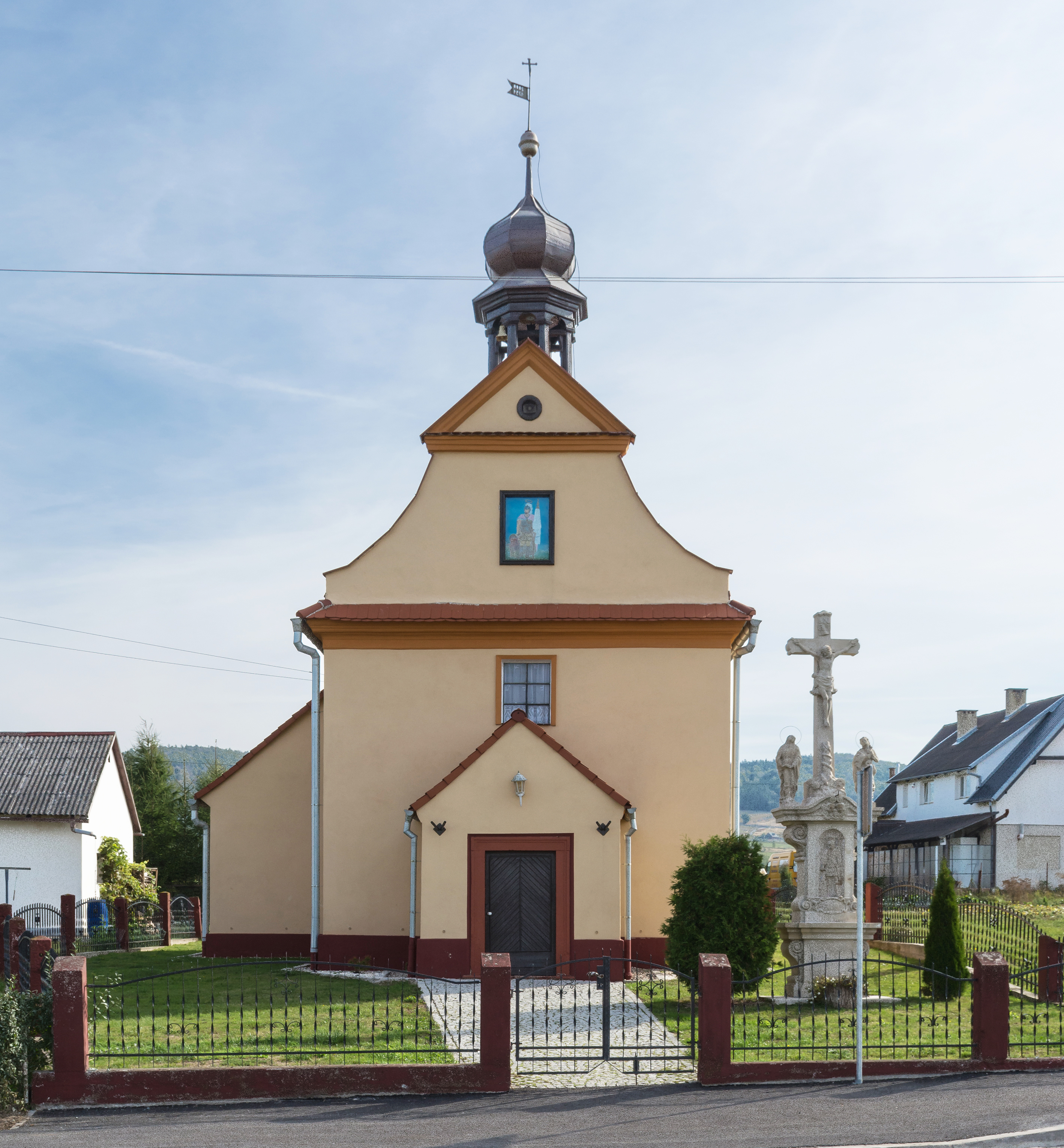 Saint Florian church in Święcko